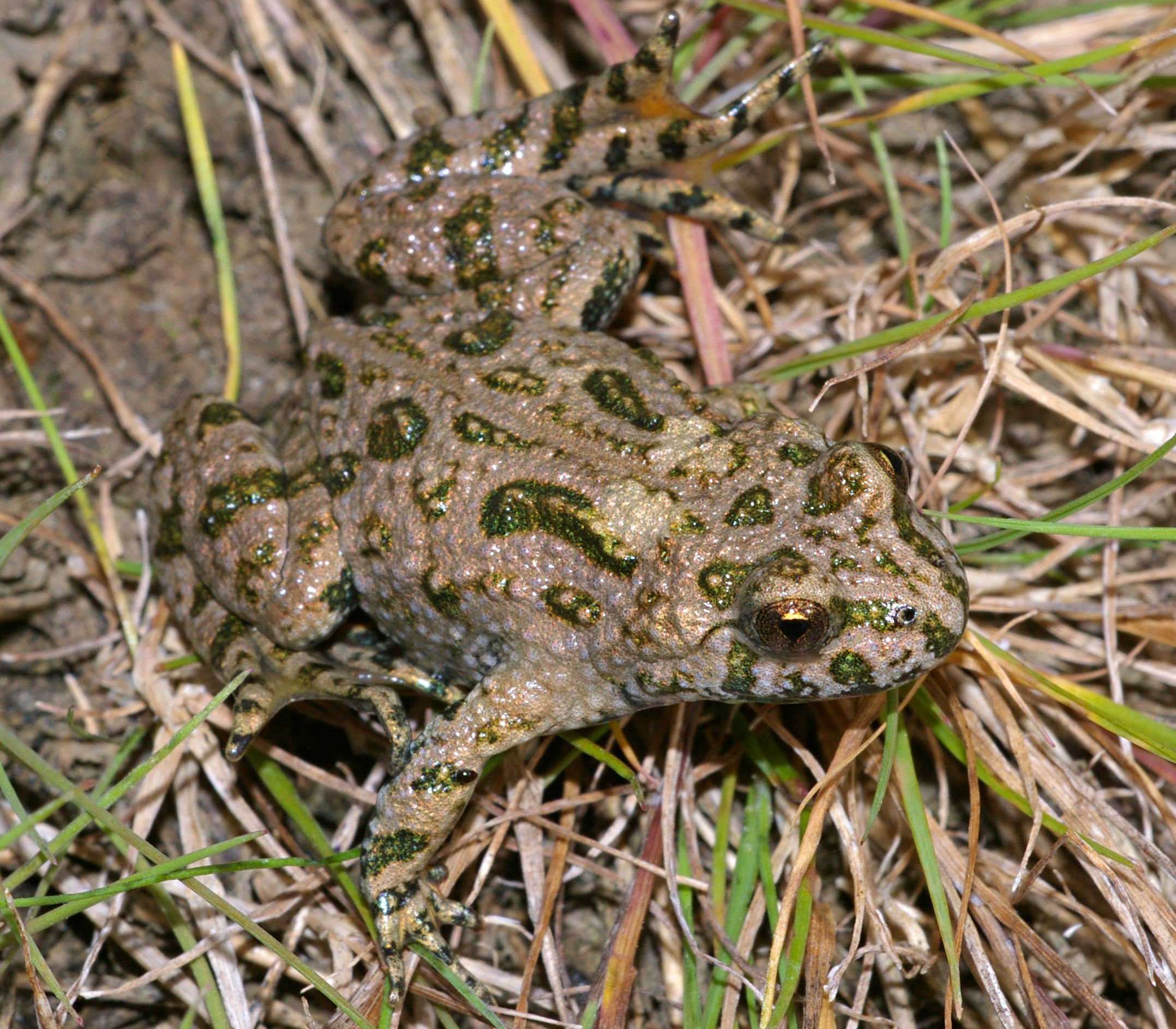 Dorsal side of a European Fire-bellied Toad (Bombina bombina); juvenile specimen.